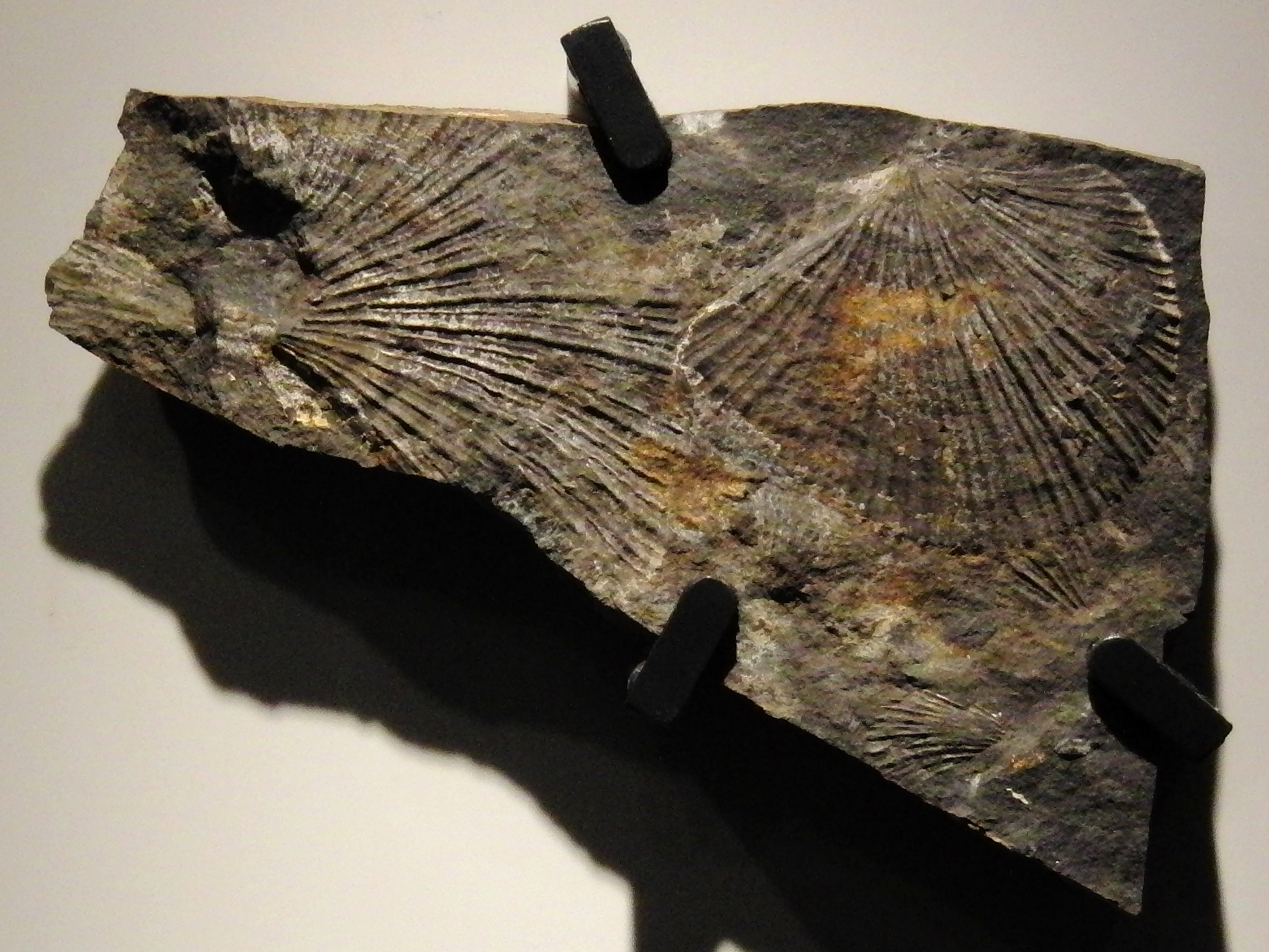 Fossil of Monotis ochotica from Nariwa, Takahashi, Okayama, Japan. Late Triassic. Exhibit in the National Museum of Nature and Science, Tokyo, Japan.